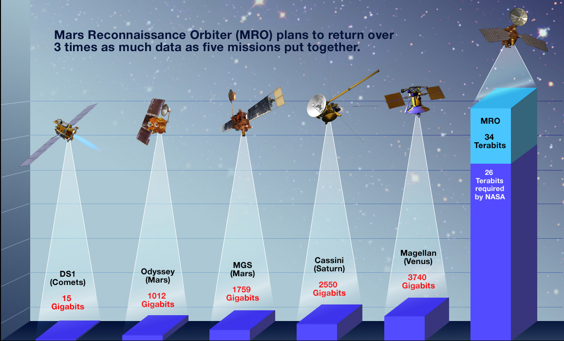 The Mars Reconnaissance Orbiter will be a powerful mission, returning 34 Terabits of vital data that will increase our knowledge of the red planet. From left to right: Deep Space 1 2001 Mars Odyssey Mars Global Surveyor Cassini-Huygens Magellan probe Mars Reconnaissance Orbiter